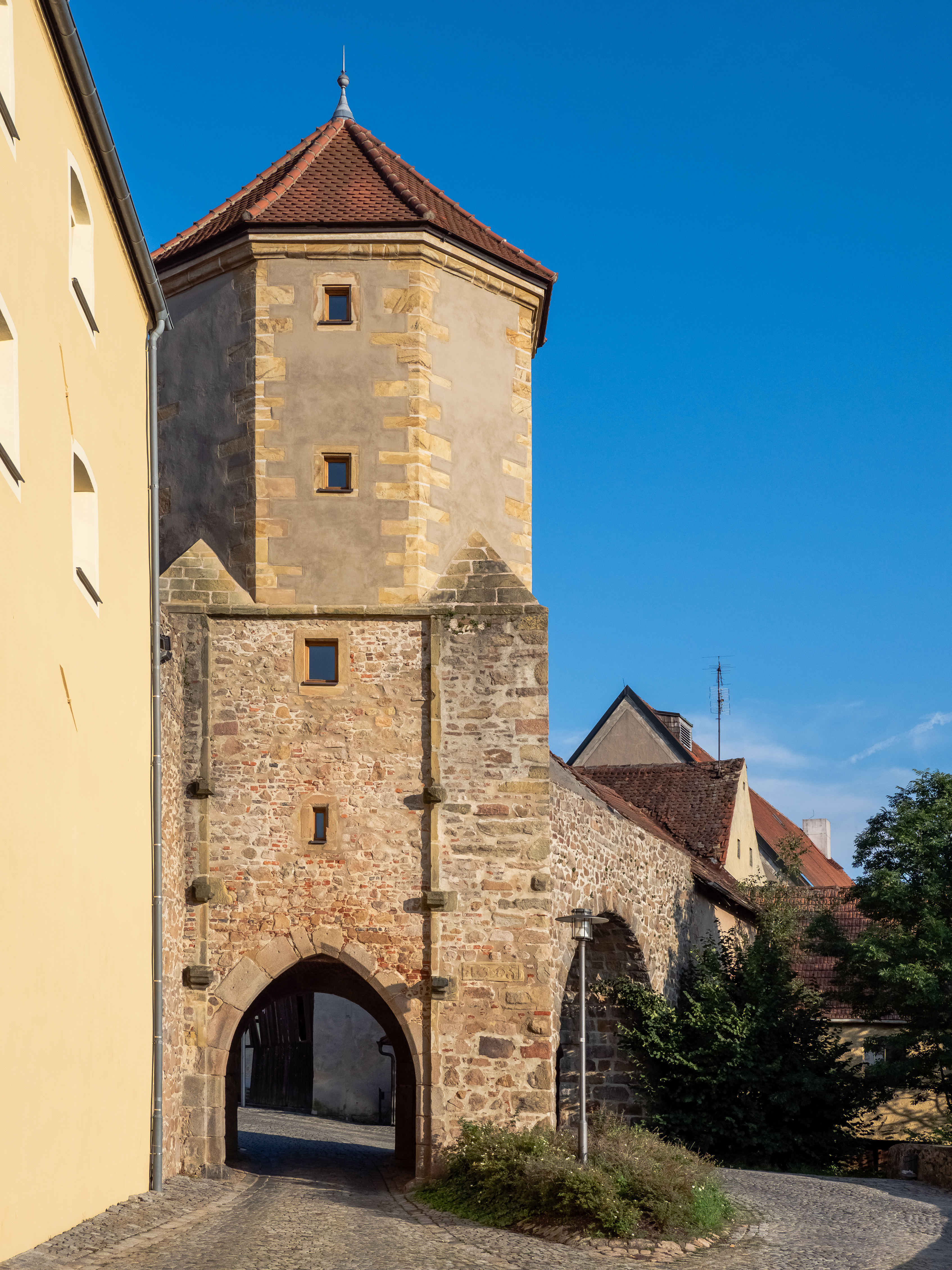 The upper gate in Nabburg from the northwest